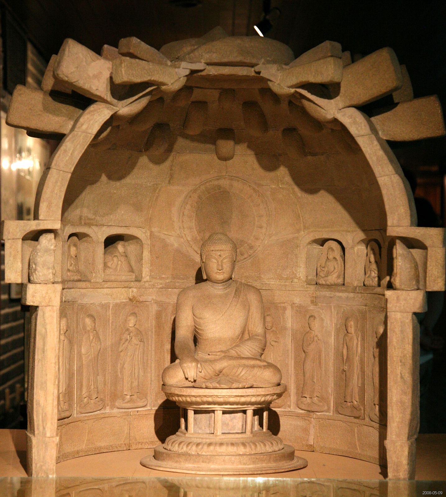 A view of Gyeongju, North Gyeongsang province, South Korea